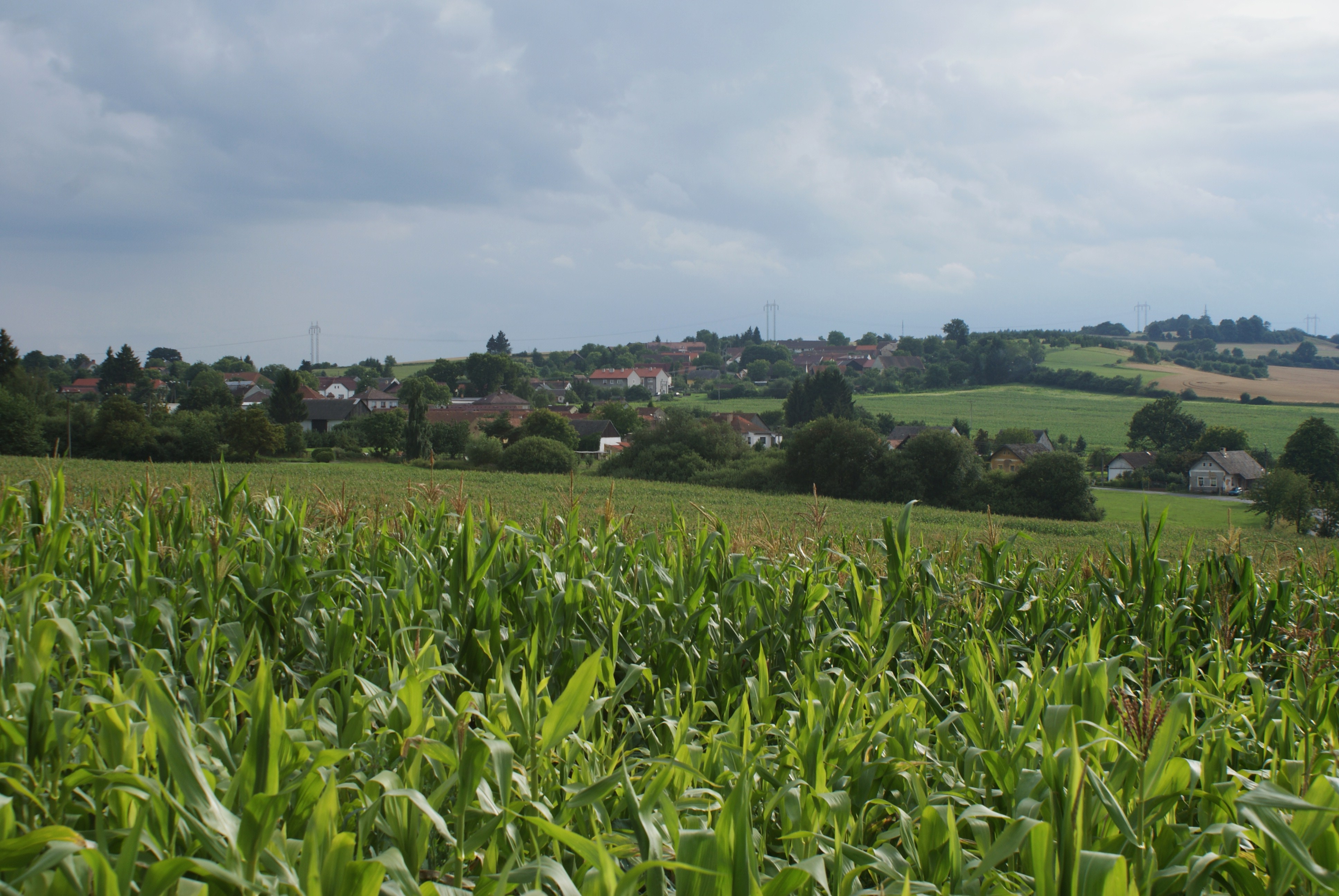 Jarov, village in Plzeň jih district, Czech Republic, general view. Česky: Jarov, okres Plzeň jih